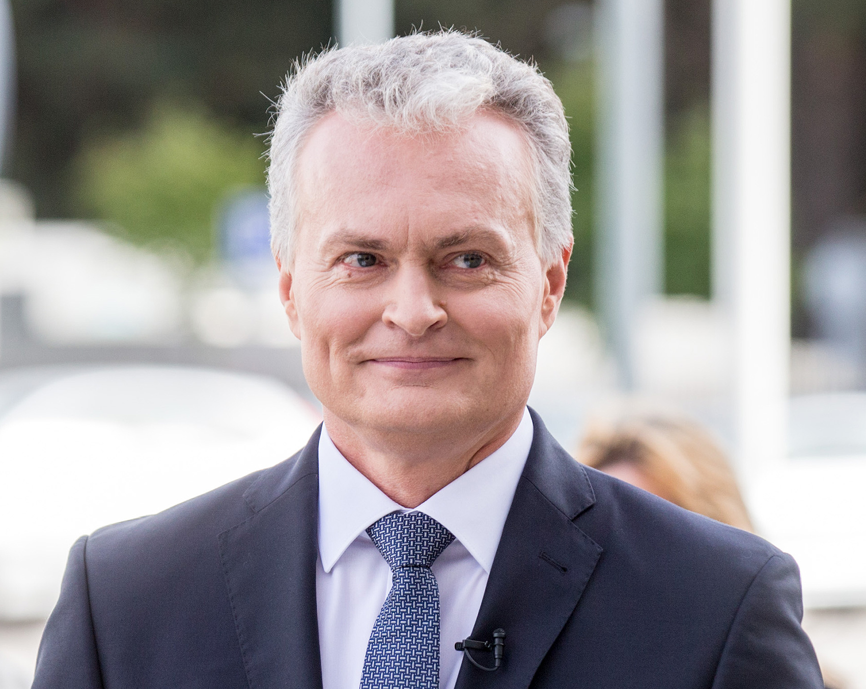 President of Lithuania Gitanas Nausėda